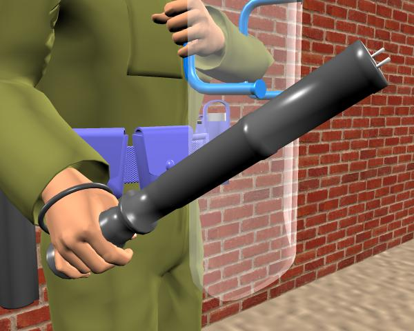 I made this image with CGI. Electric shock baton.